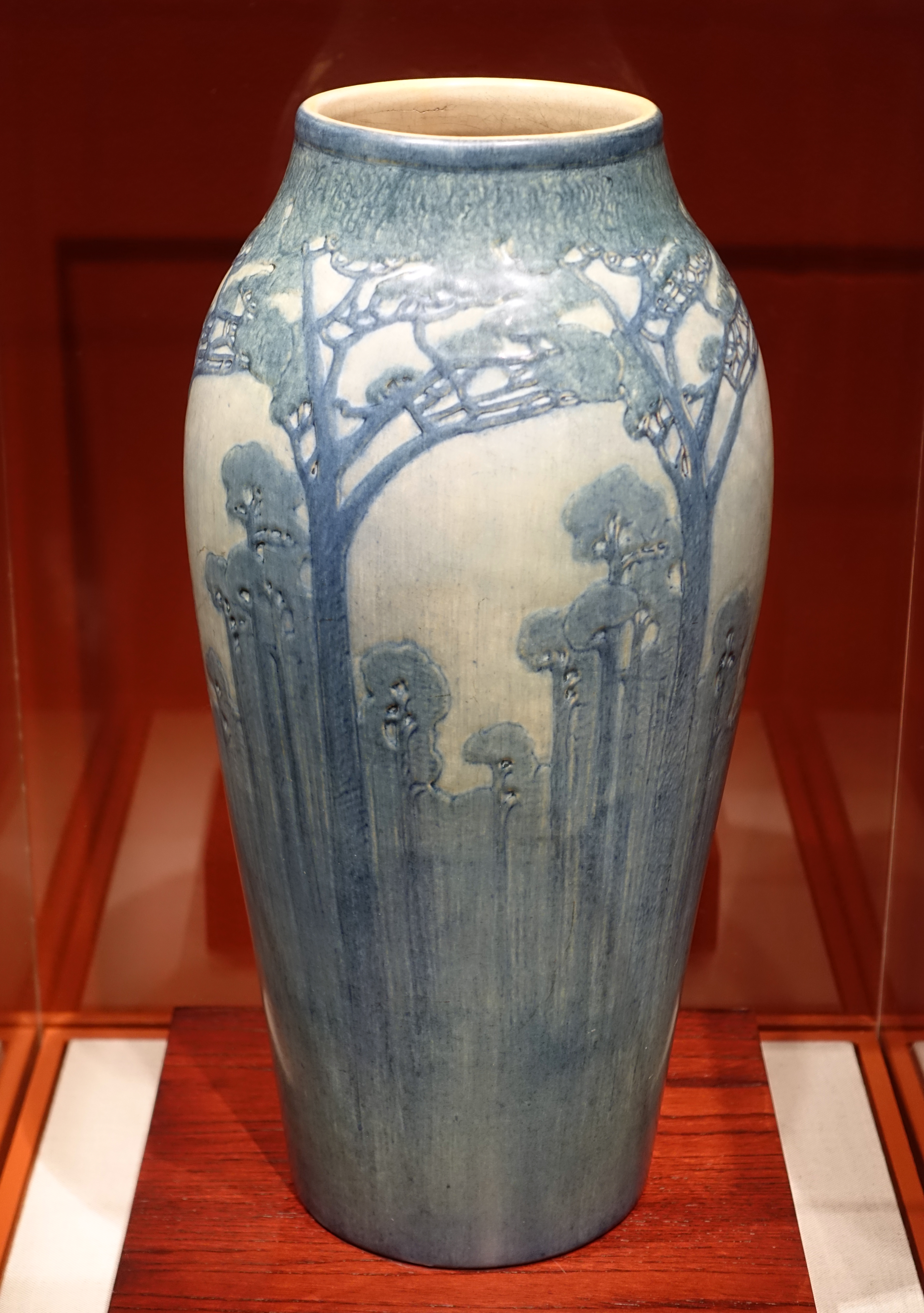 Exhibit in the Princeton University Art Museum - Princeton University, Princeton, New Jersey, USA.